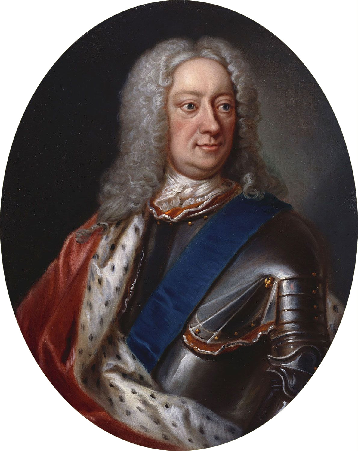 This is one of a set of twelve oval portraits in matching frames of members of the Hanoverian royal family (406587-90 and 401339-46), only six of which are catalogued by Oliver Millar (OM 634-9 and 1218). They would appear all to have been copied from existing portraits of the first half of the eighteenth century. The set was first recorded in Windsor Castle in the 1870s. This is based on (or is the same type as) the anonymous portrait in the collection (OM 620, 403402); the King is shown wearing armour with a lace stock, a red, ermine-lined mantle over his right shoulder and around his waist, and the riband of the Order of the Garter; long powdered wig on his head.